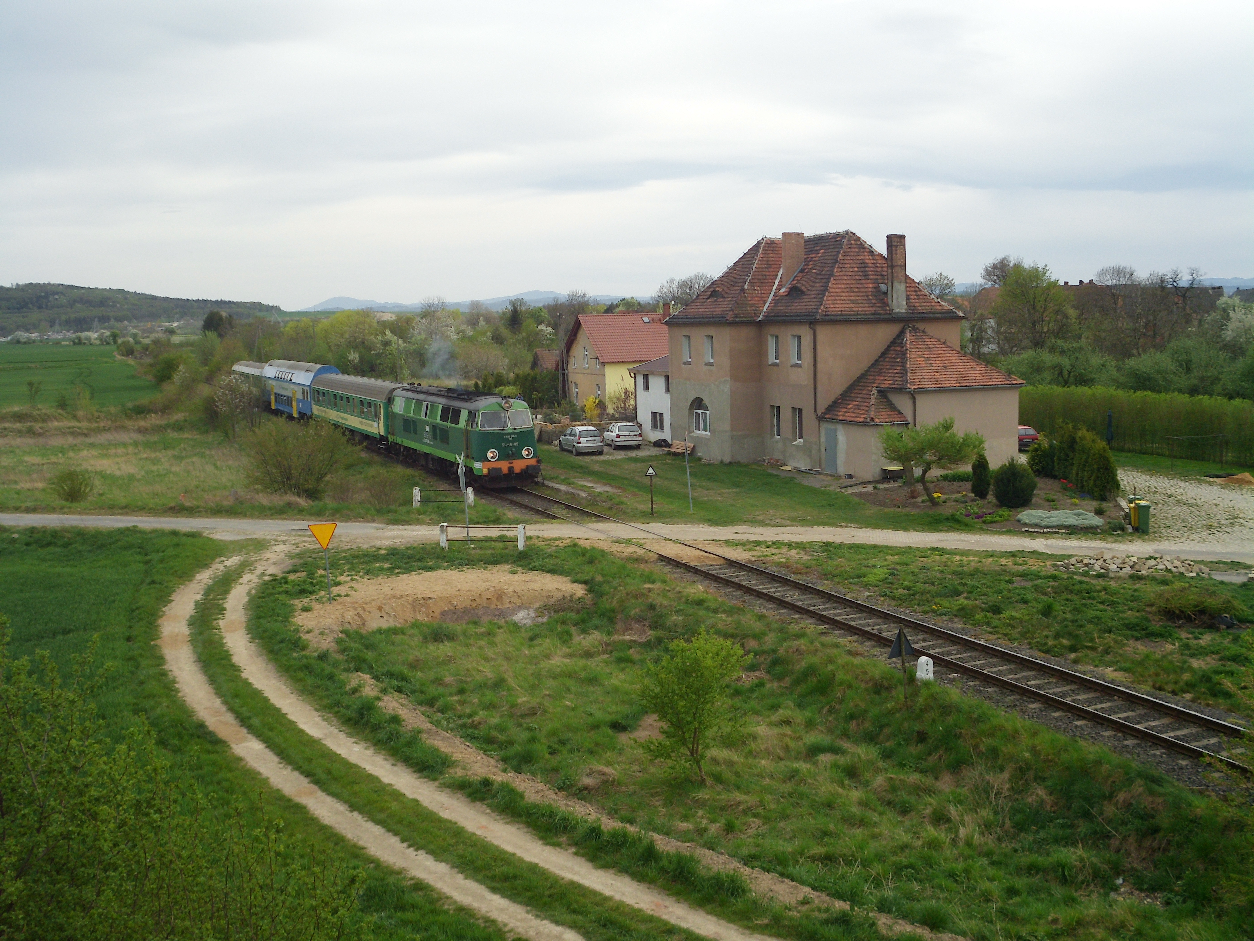 Tourist train headed by a diesel engine SU45-115 in front of a former station building in Siekierzice, Poland, on a freight line from Jawor. The train is heading towards Jawor and the picture was taken from a road bridge.